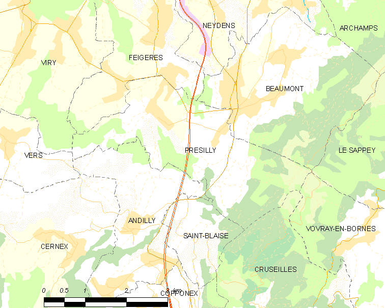 Map of French municipality Présilly